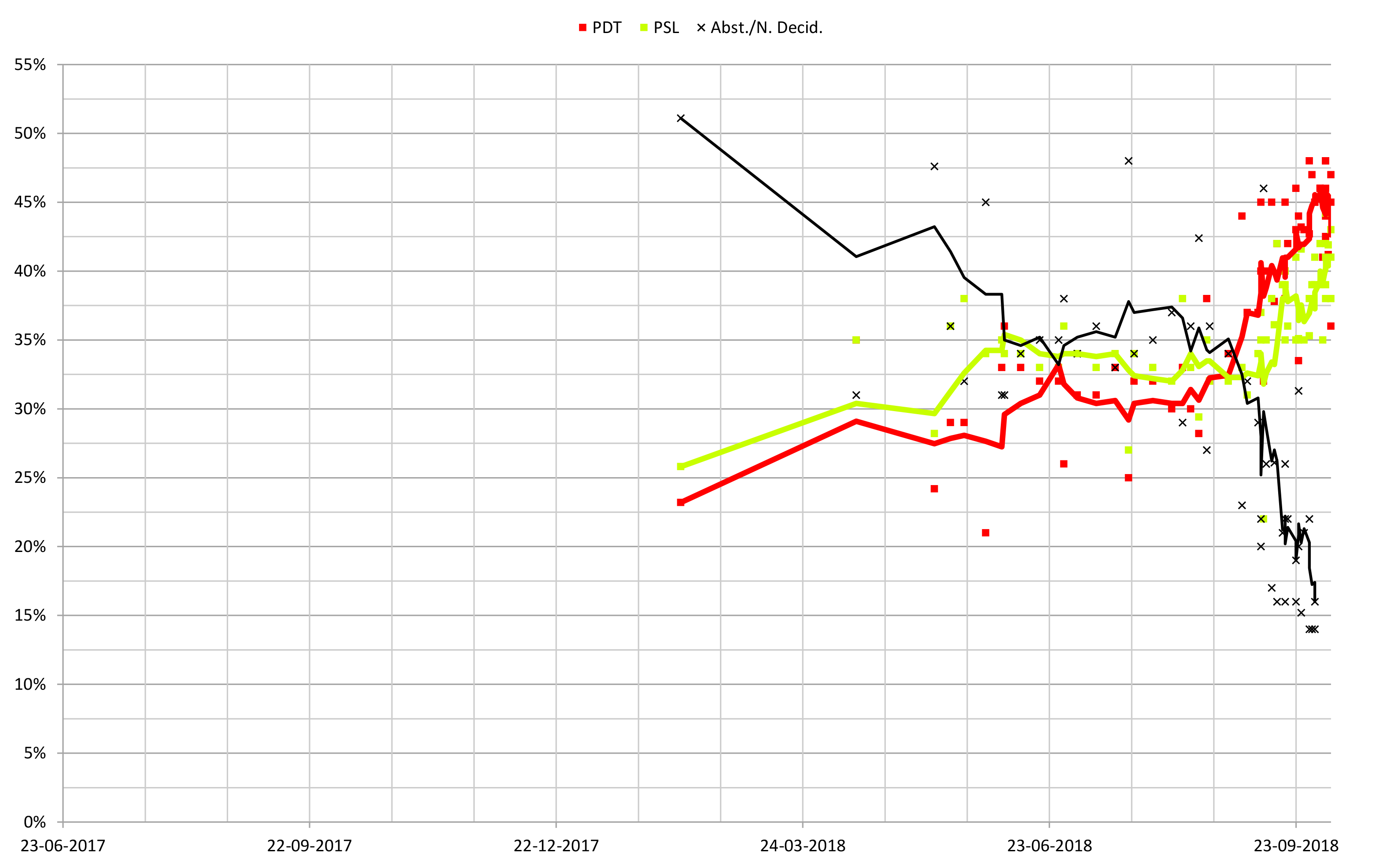 Graph showing 5 poll average trend lines of Brazilian opinion polls for the second round of presidential election between Ciro Gomes (PDT) and Jair Bolsonaro (PSC) from April 2017 to the most recent one. Based on data at